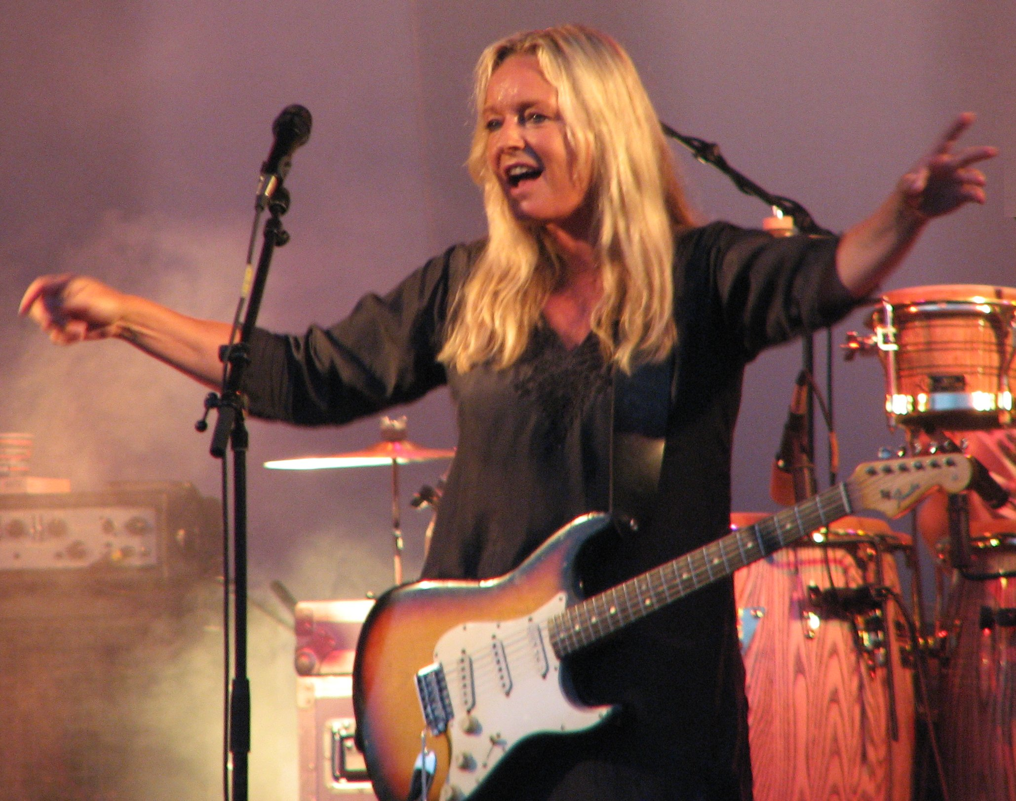 Anne Linnet (Danish singer, musician and composer) during a concert in Odense, Denmark